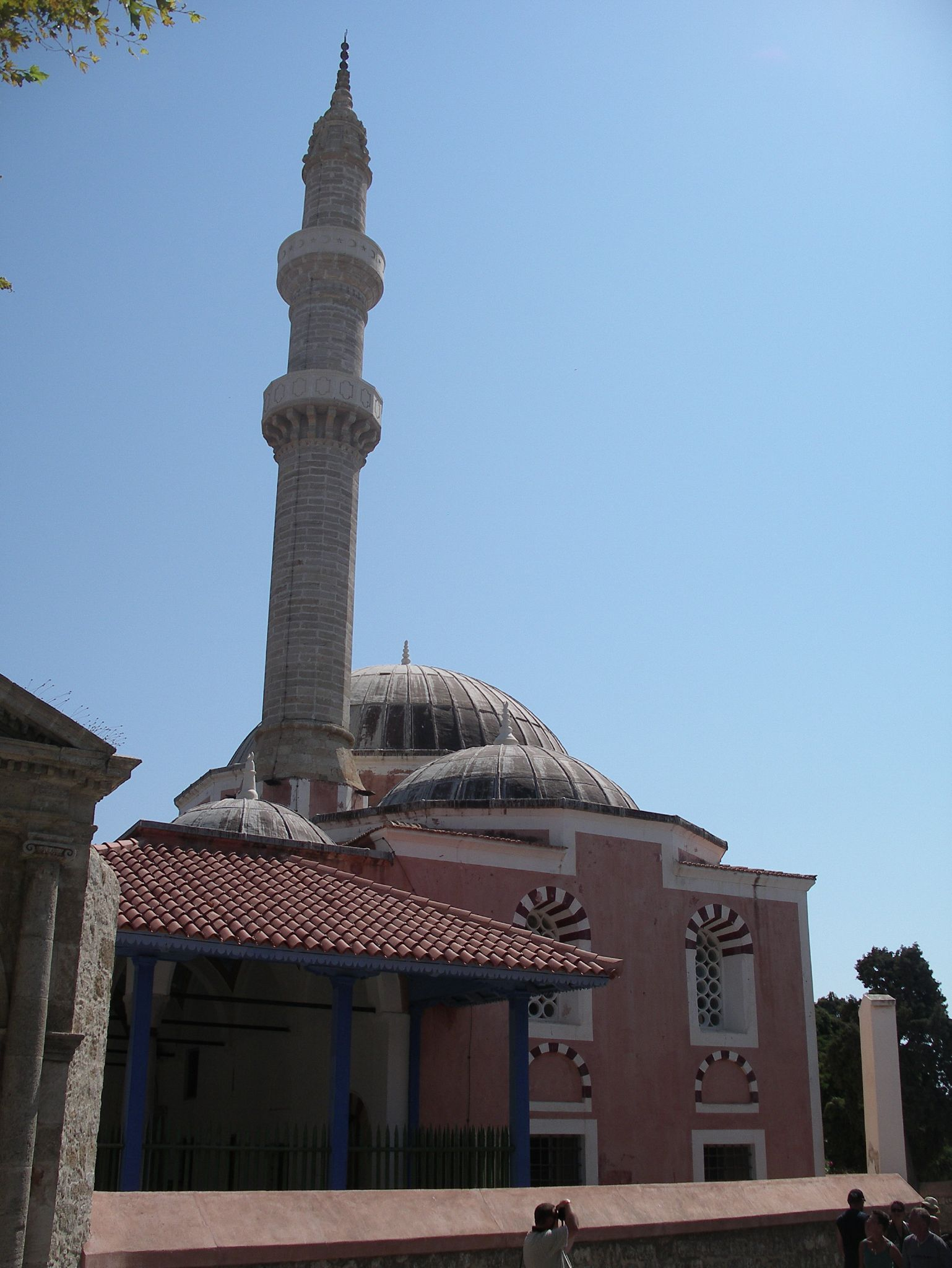 Mosque of Rhodes (city).